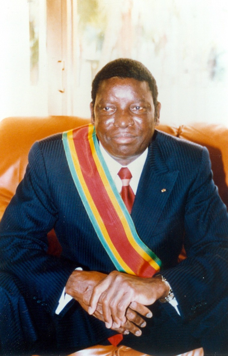 A photo of President Gnassingbé Eyadéma of Republic of Togo, West Africa taken by Billy Davis.